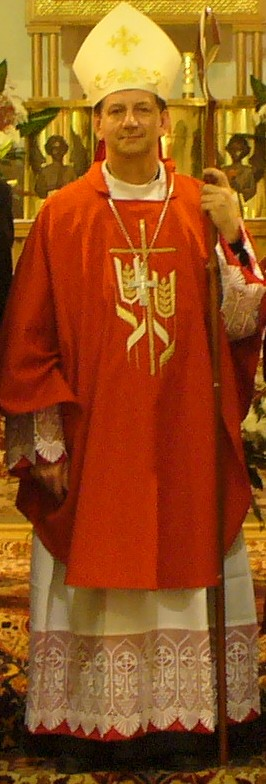 Józef Guzdek - suffragan bishop of Cracovian Archdiocese.